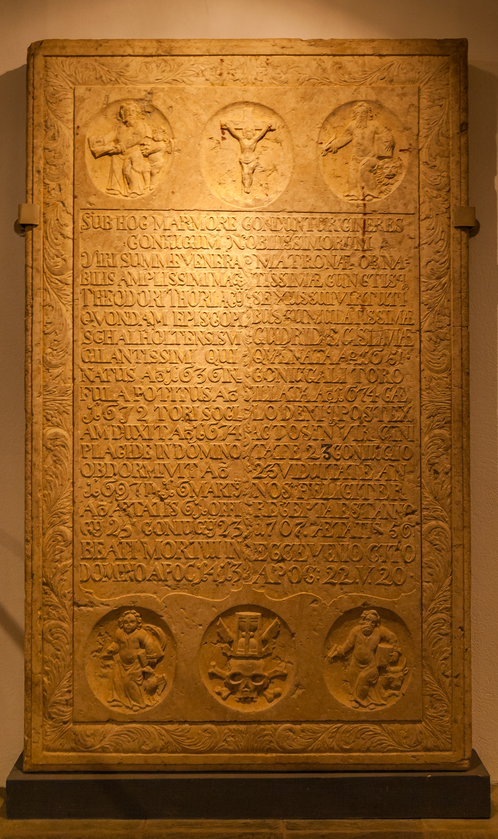 Skálholt cathedral, Suðurland, Iceland